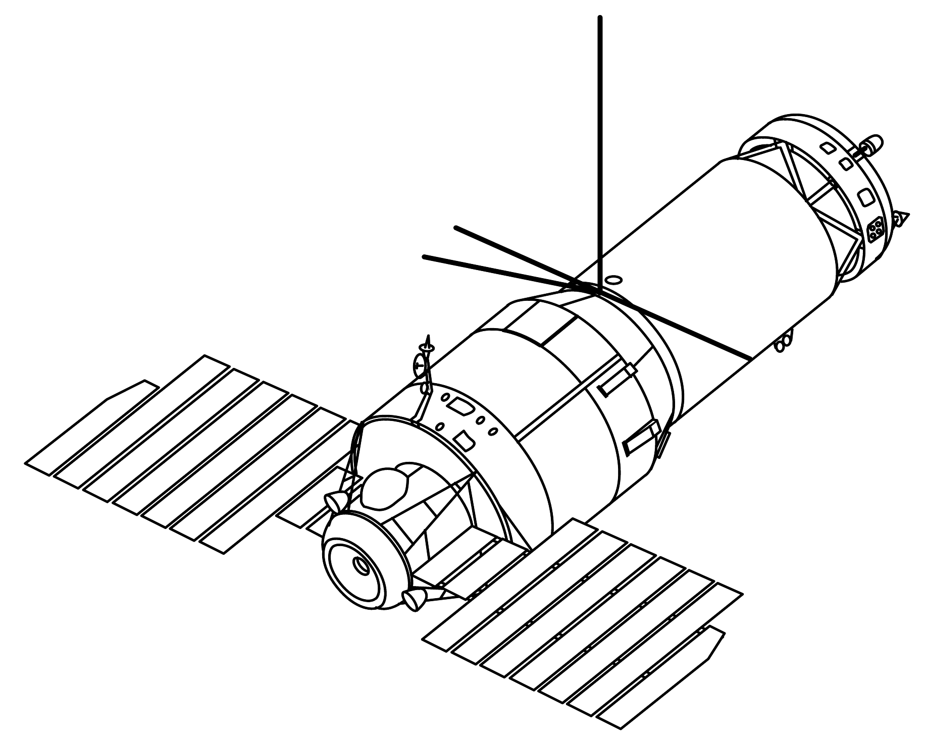 Salyut 3, the first successful Almaz space station. The drogue docking unit is at the rear of the station (left), between the two main engines.